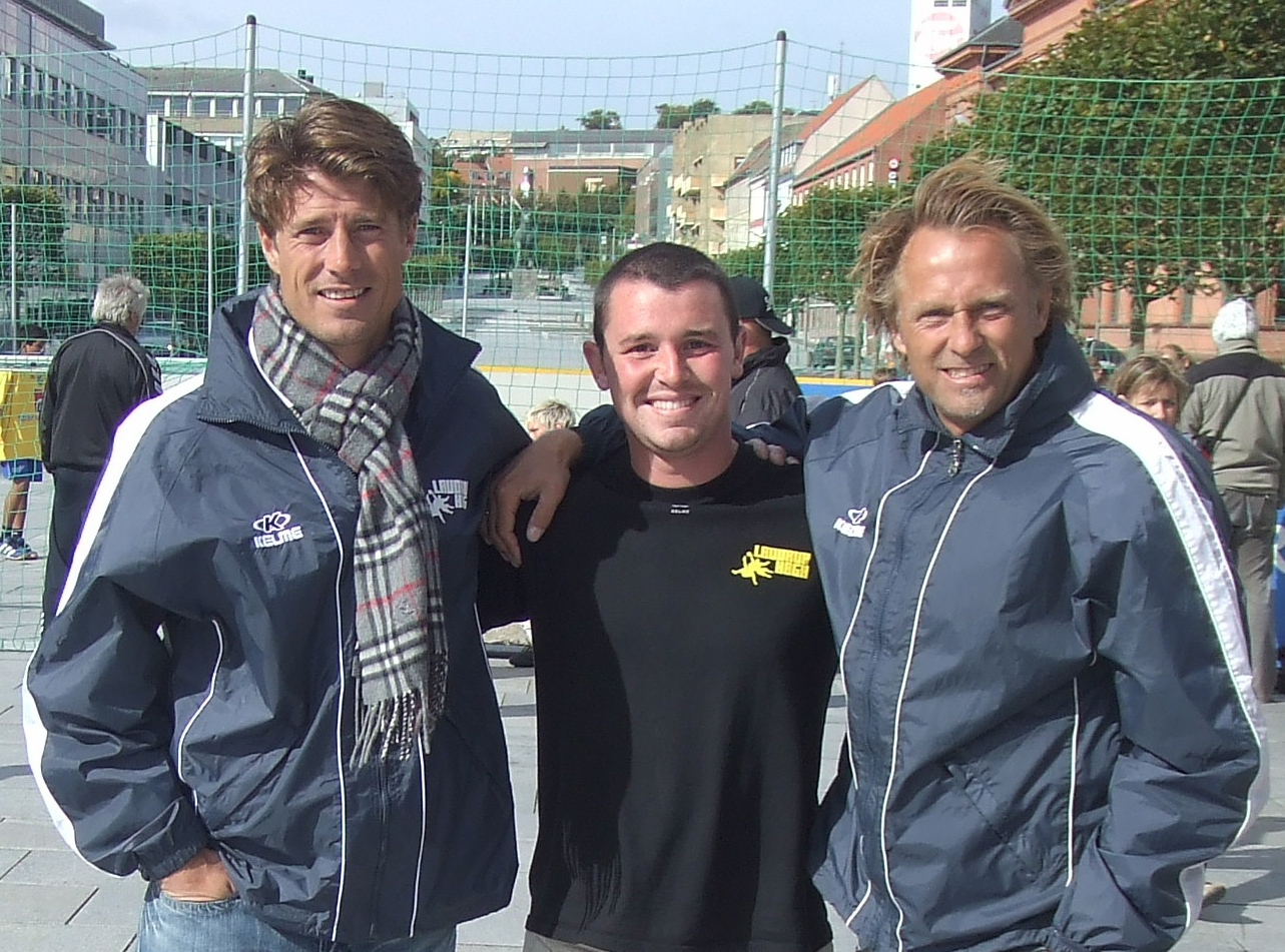 Brian Laudrup, Darren Laver & Lars Høgh coaching in Odense, Denmark